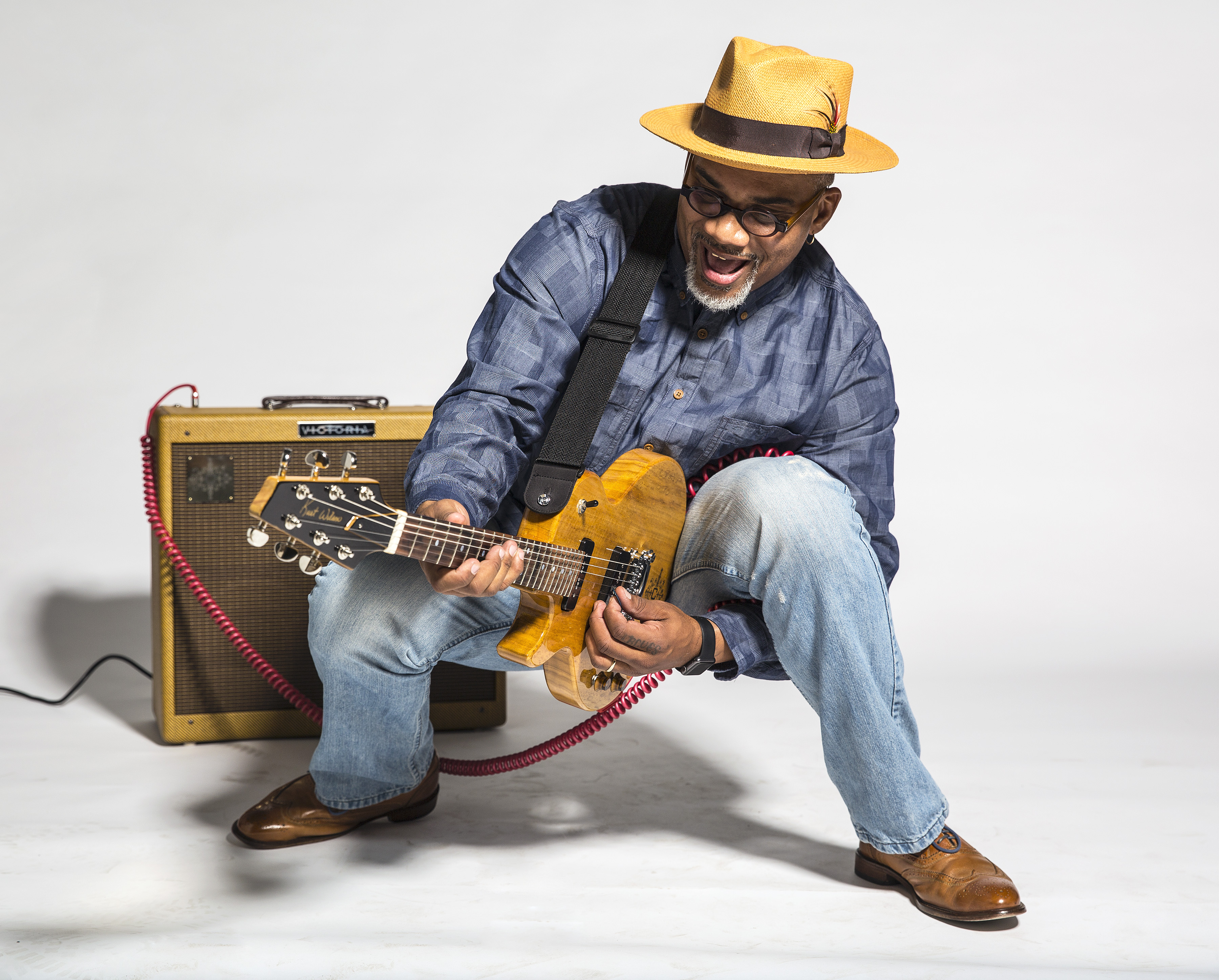 Image of Toronzo Cannon from recent album shoot